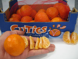 Photo of a box of clementines, fruit which is a cross between a mandarin orange and an orange, with a hand holding one for size reference.